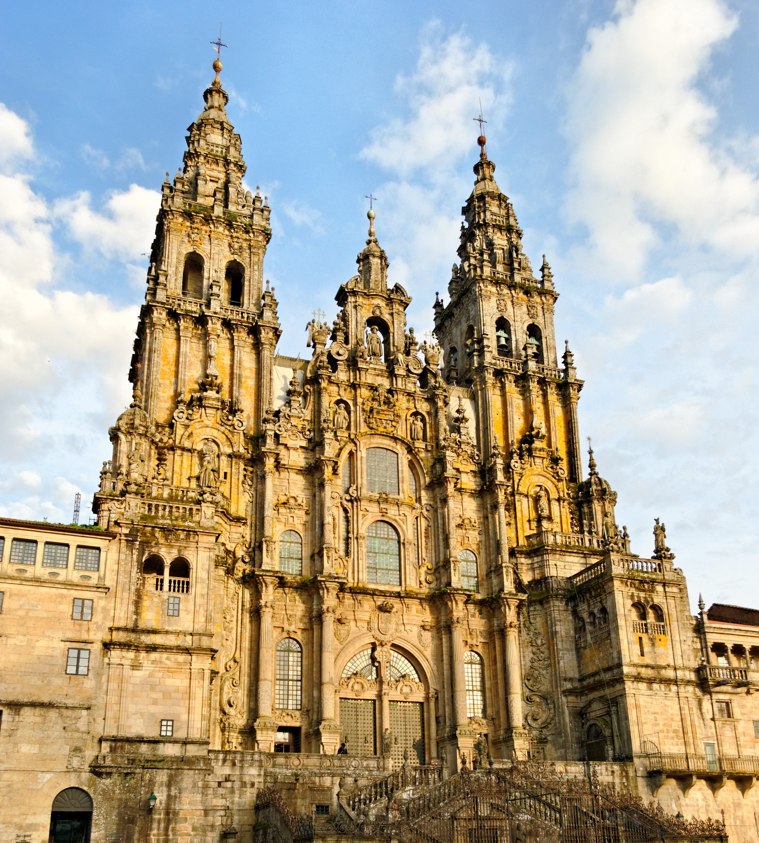 Catedral de Santiago de Compostela